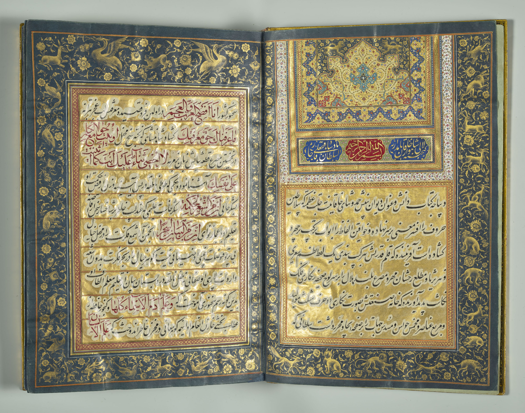 A 19th-century manuscript of Divan-e Khaqan, by Fath Ali Shah Qajar (1772-1834)